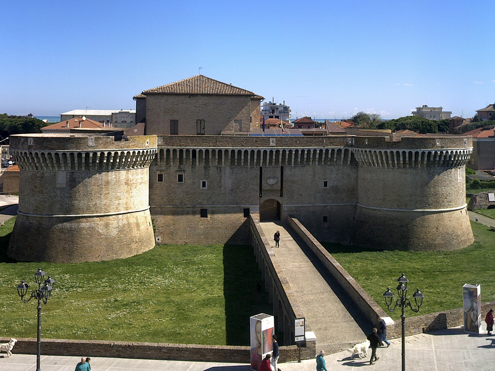 fortresse de Senigallia